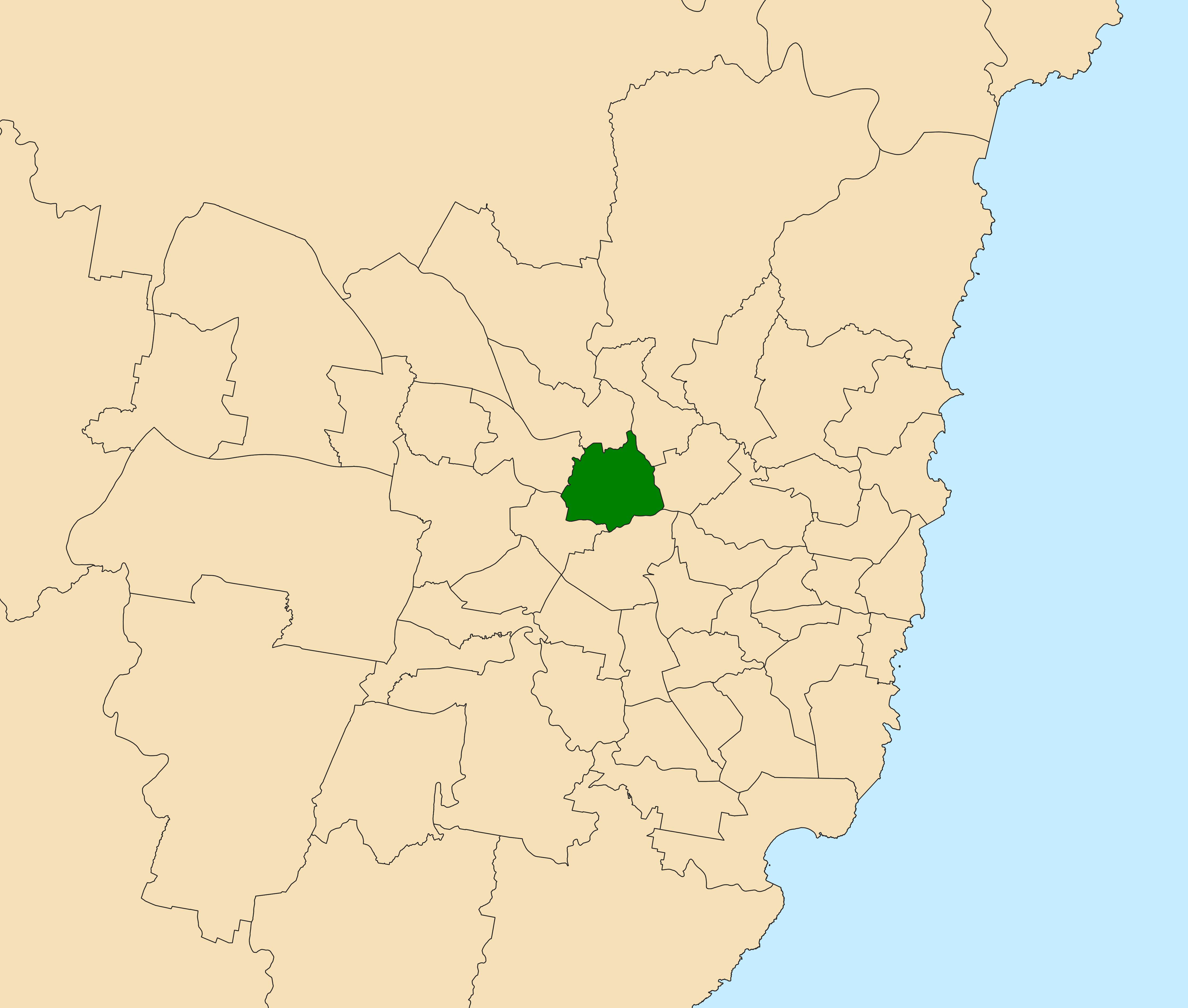 Location of the state electoral district of Parramatta (dark green) in the metropolitan Sydney area as of the 2019 New South Wales state election. Incorporates or developed using Administrative Boundaries ©PSMA Australia Limited licensed by the Commonwealth of Australia under Creative Commons Attribution 4.0 International licence (CC BY 4.0).